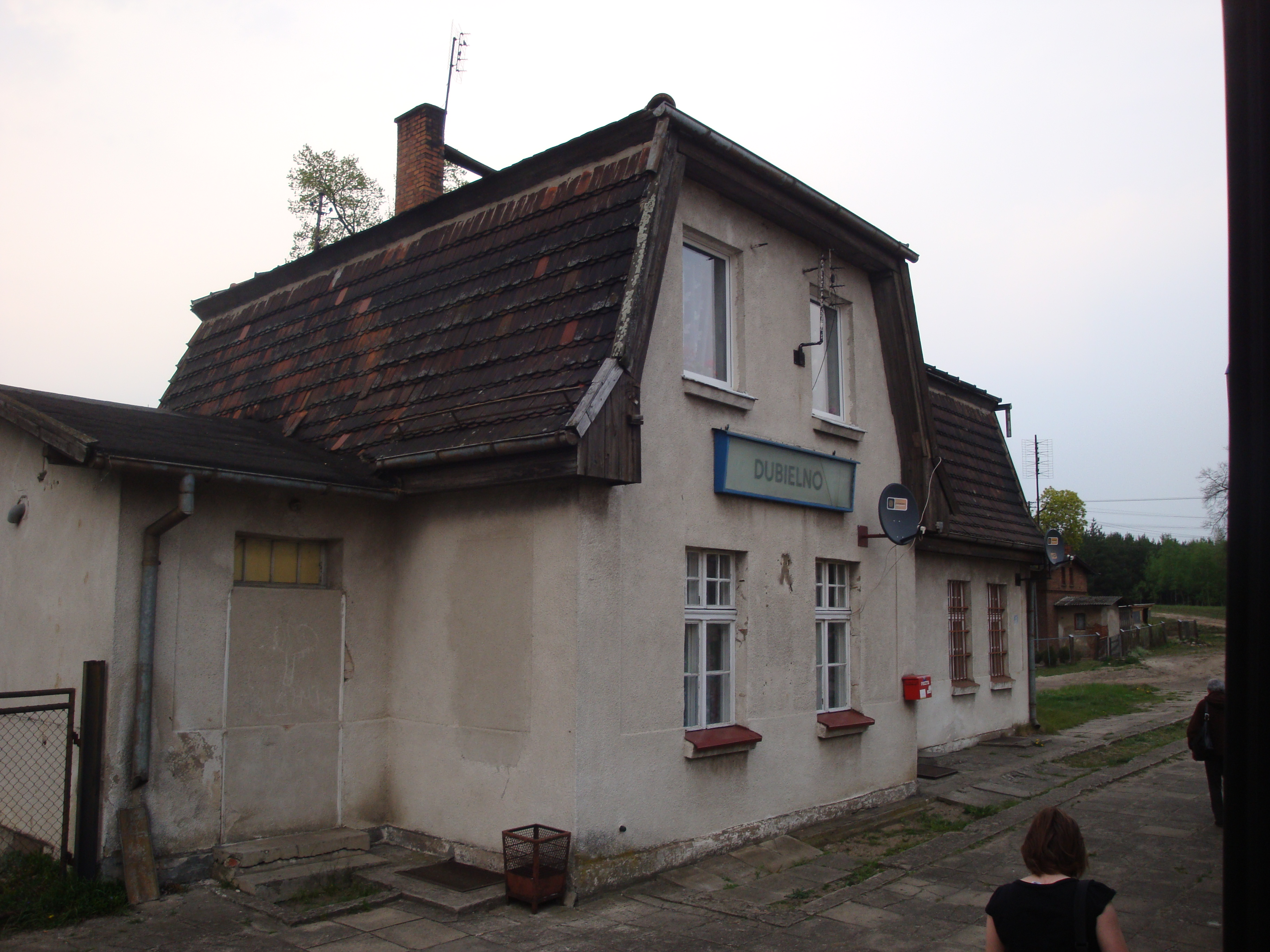 Train station in Dubielno (Świecie county), Poland